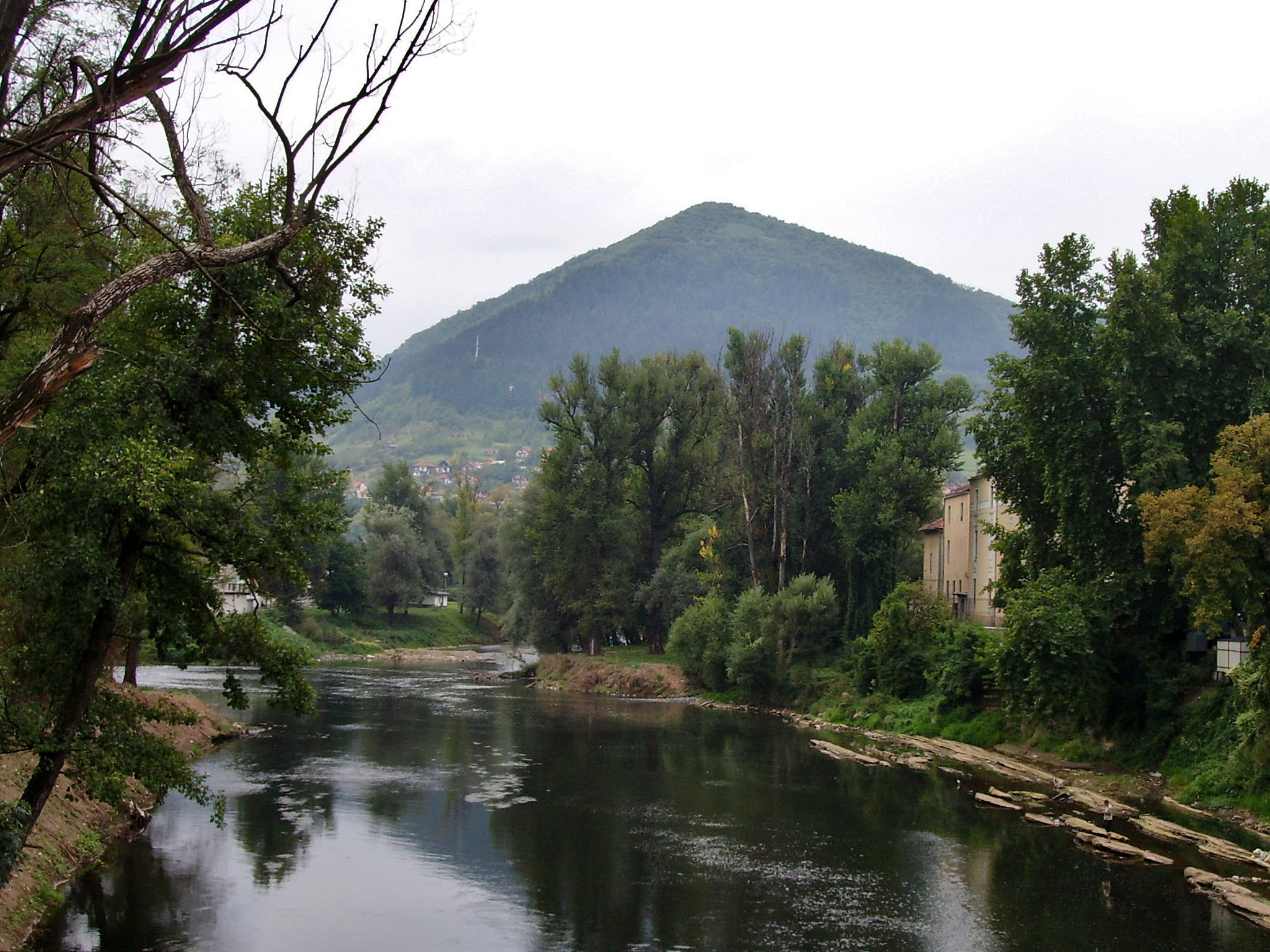 River Bosna and the so-called "pyramid" of Visoko (Bosnia and Herzegovina).